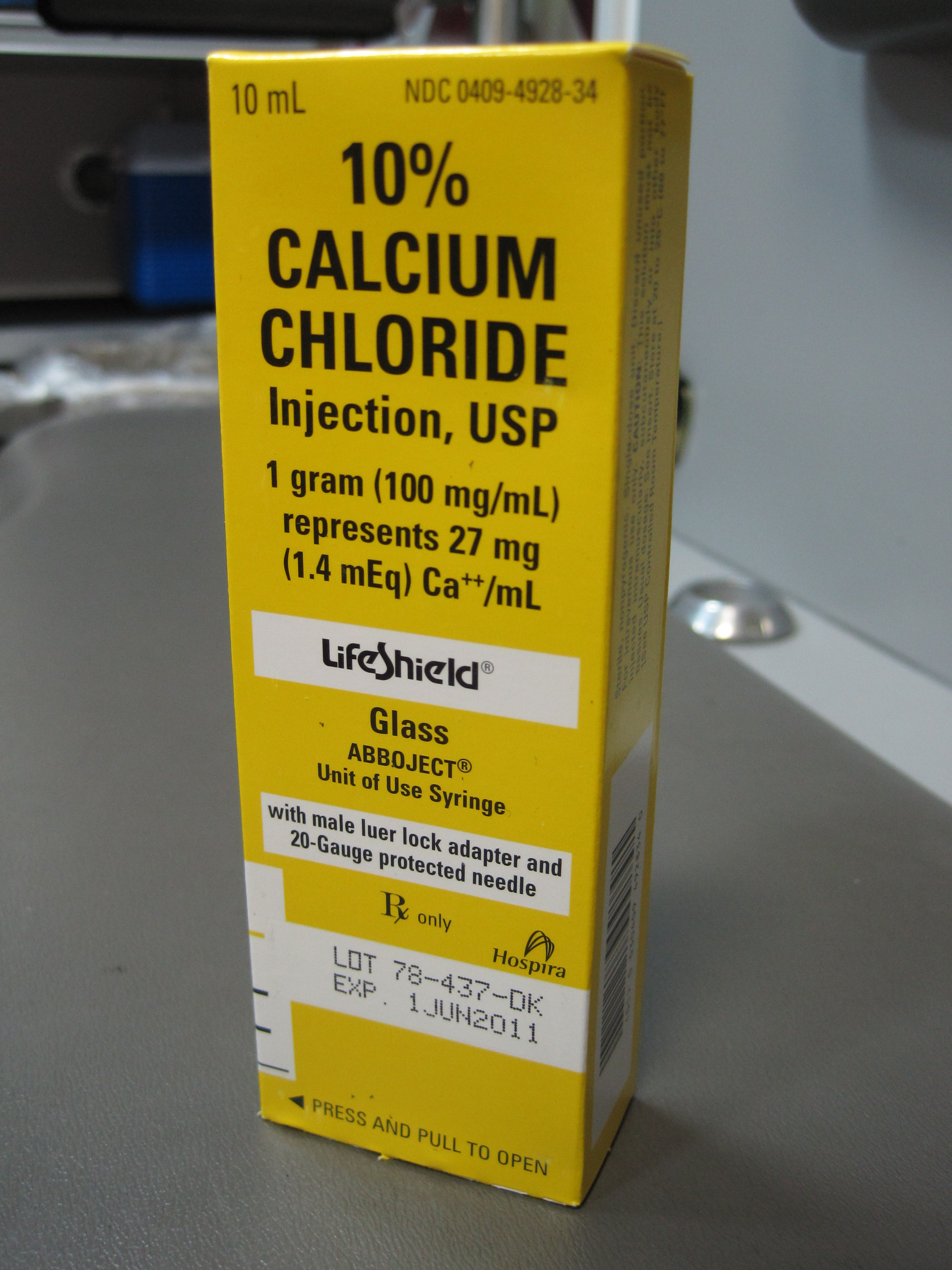 10% Calcium Chloride preparation, pre-filled BristoJet package for IV administration.